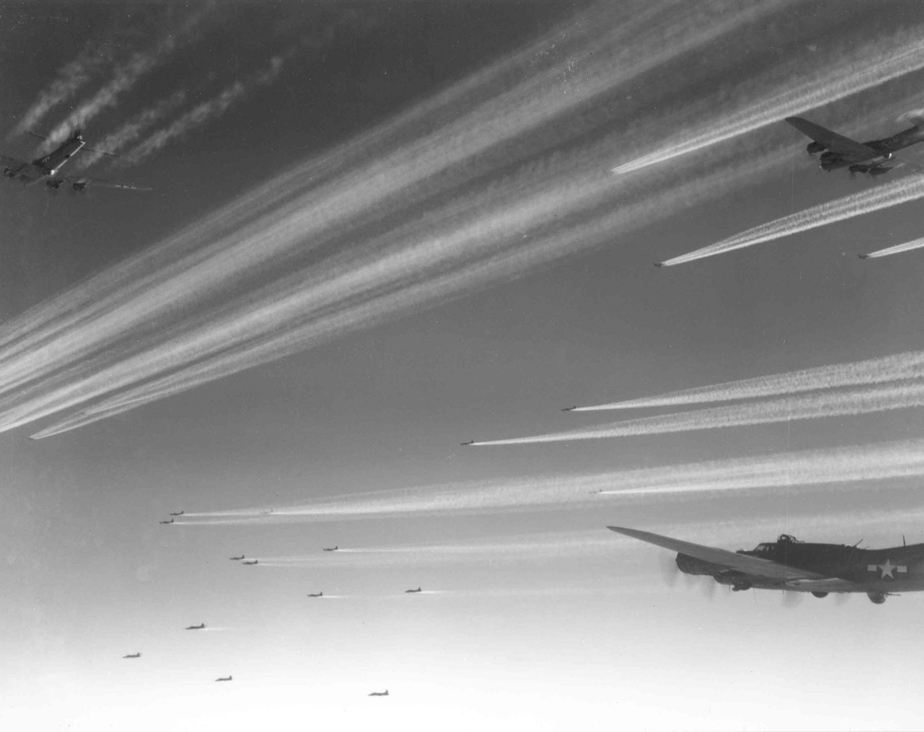 Large formation of Boeing B-17Fs of the 92nd Bomb Group.